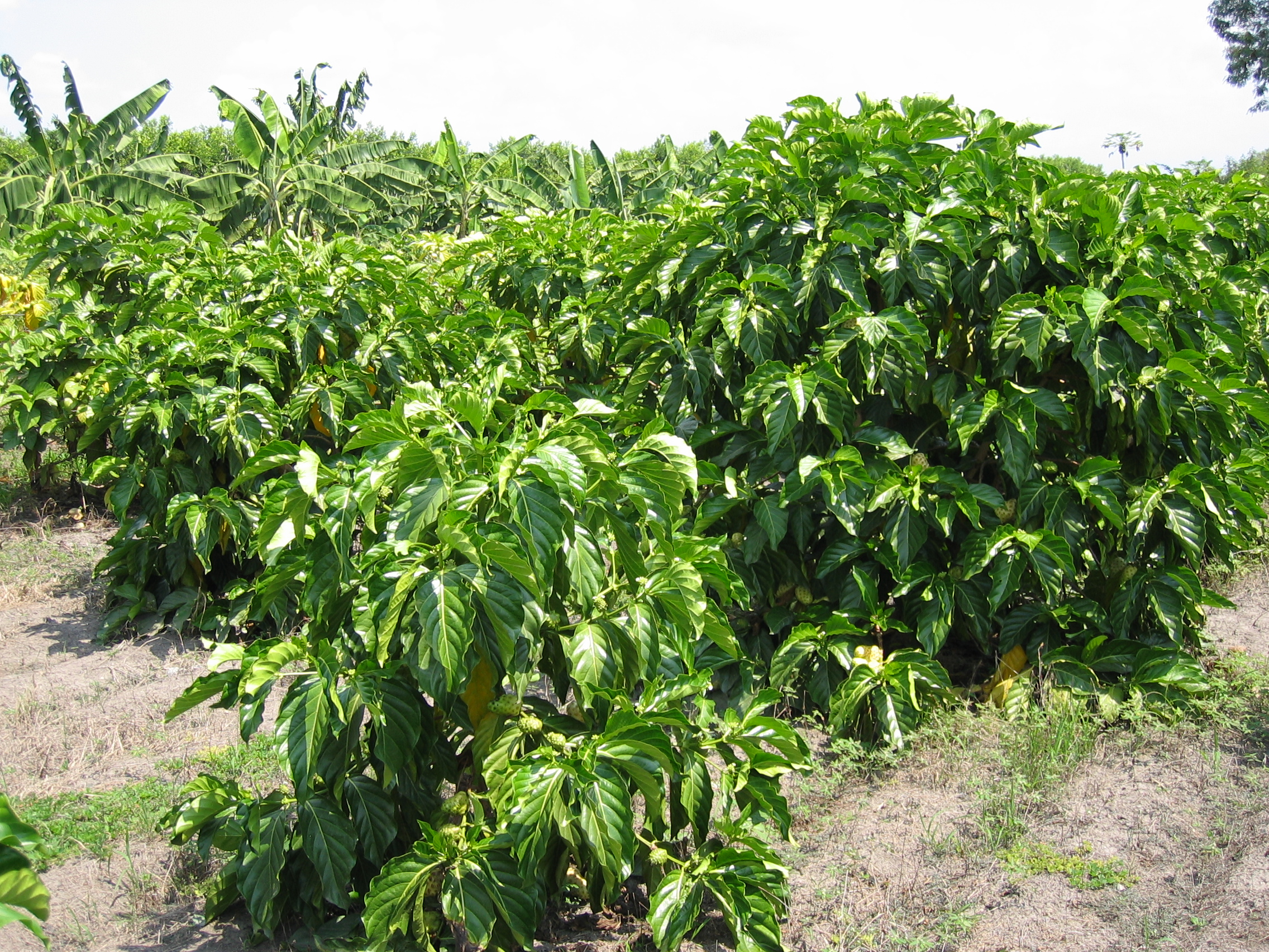 Picture taken at CIAT, Colombia (locality Palmira, Valle del Cauca).